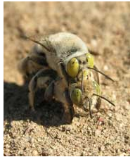 Centris pallida mating